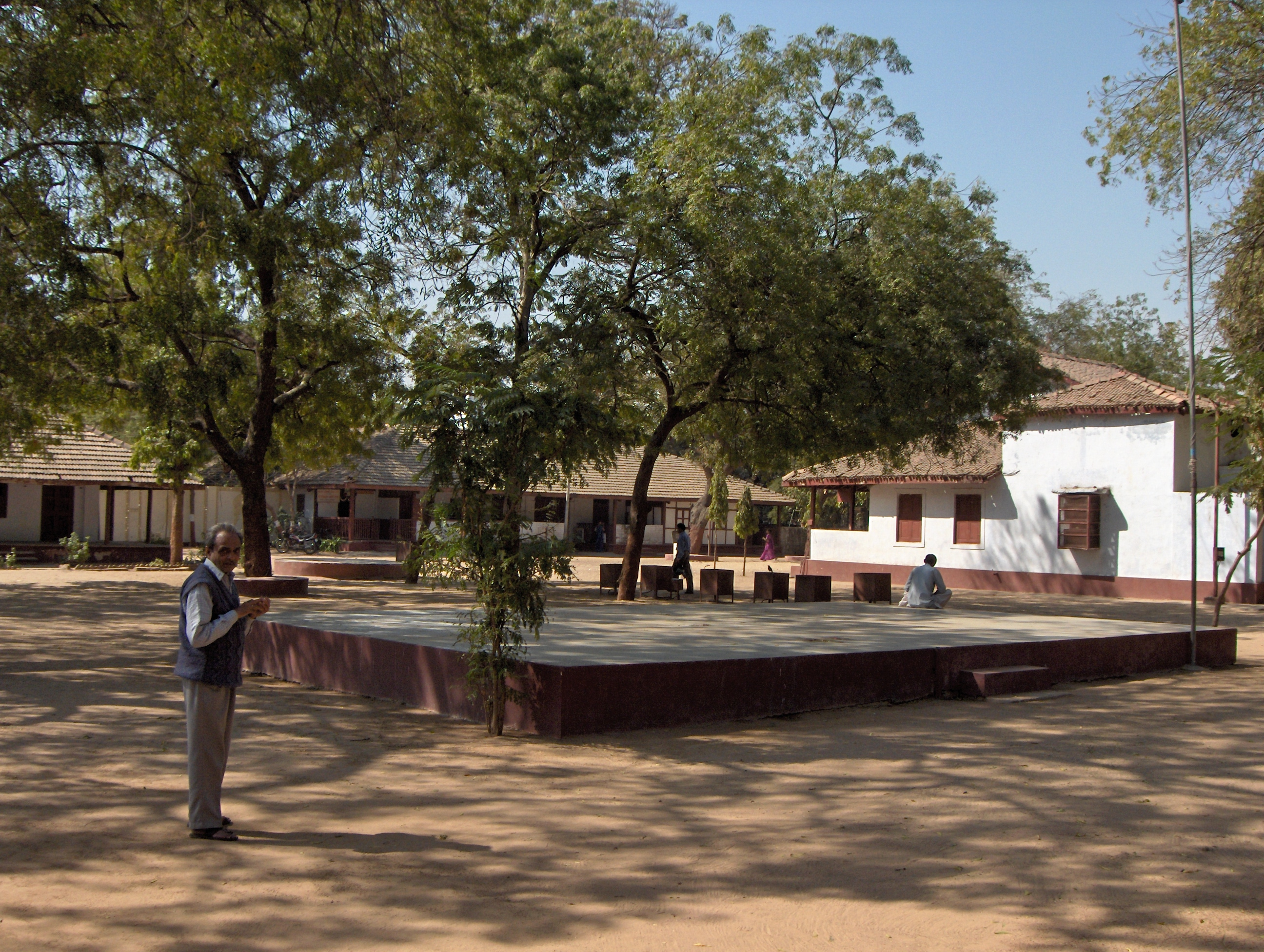 Sabarmati Ashram in Ahmedabad, India Picture taken by me, Nichalp on 28-Jan-2006